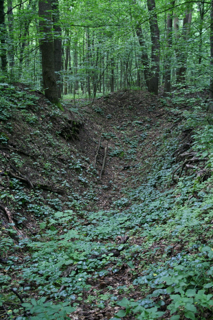 Archeological research of Chernolesskoe antient city